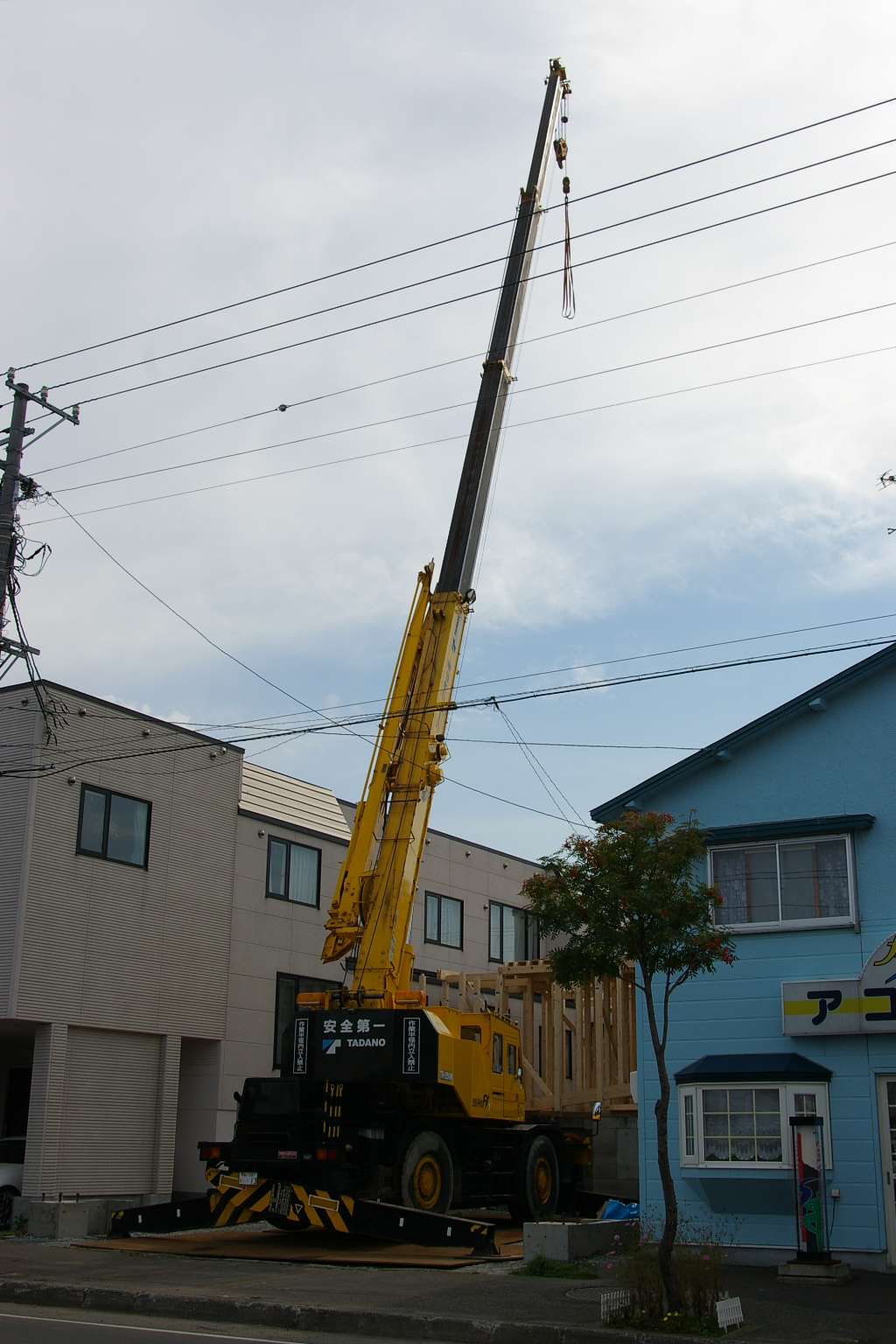 Rough terrain crane under work.